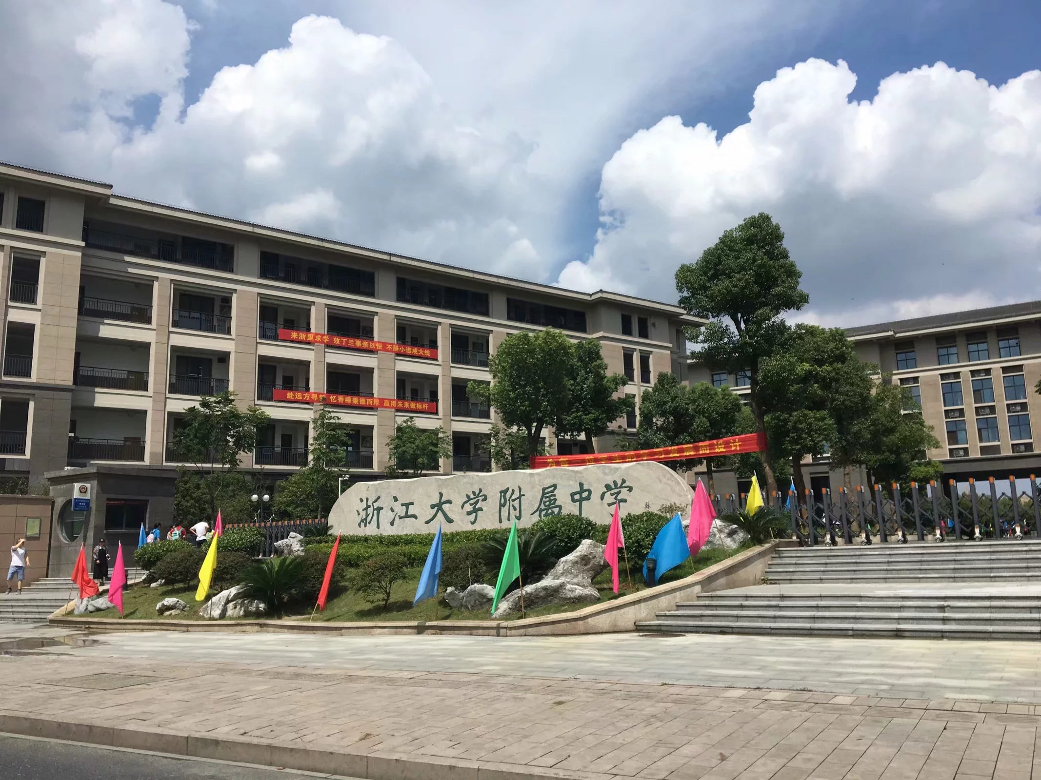 浙大附中丁兰校区校园大门